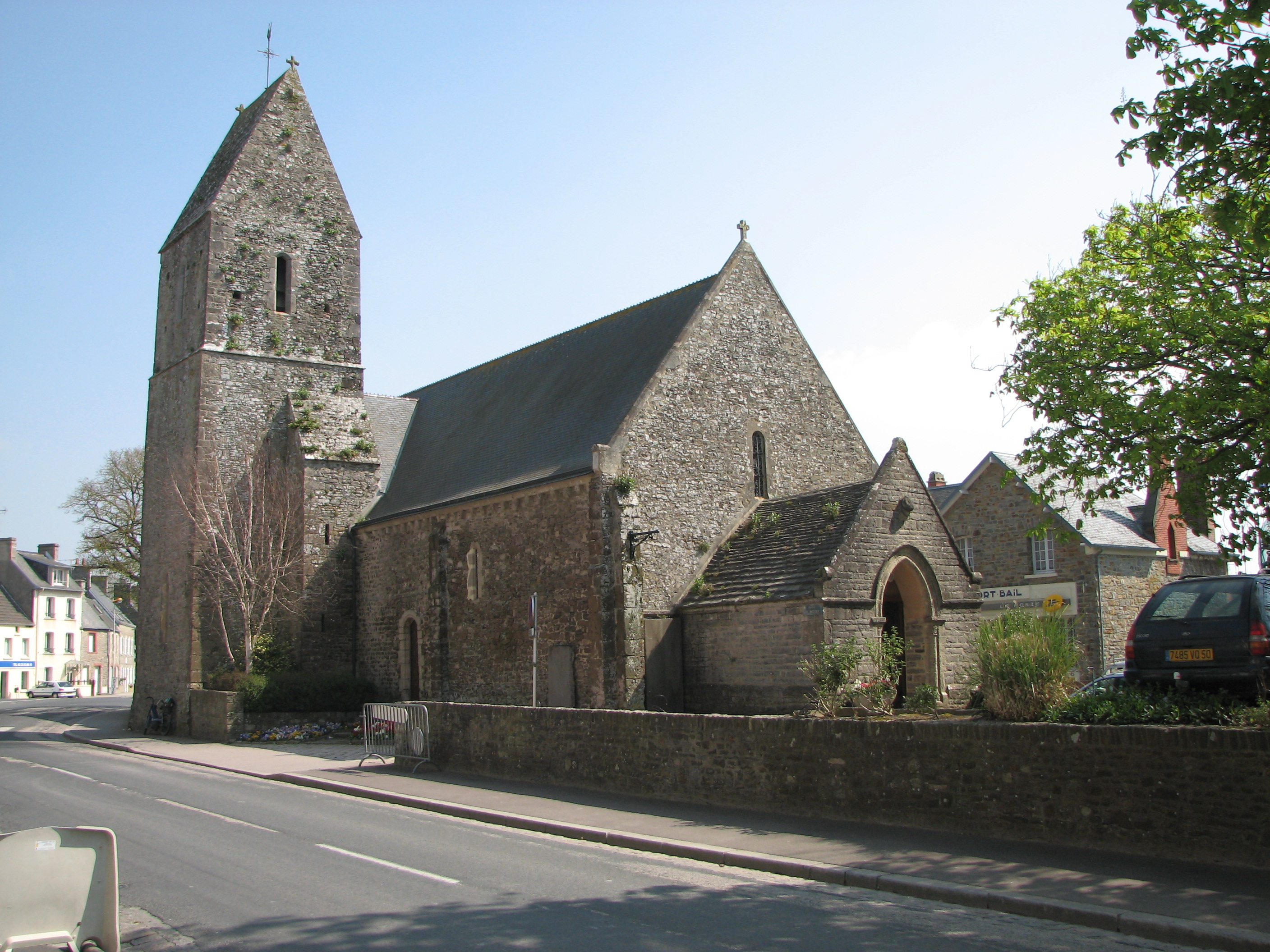 Eglise Saint-Martin, Portbail, NormandieSaint-Martin church, Portbail, Normandy